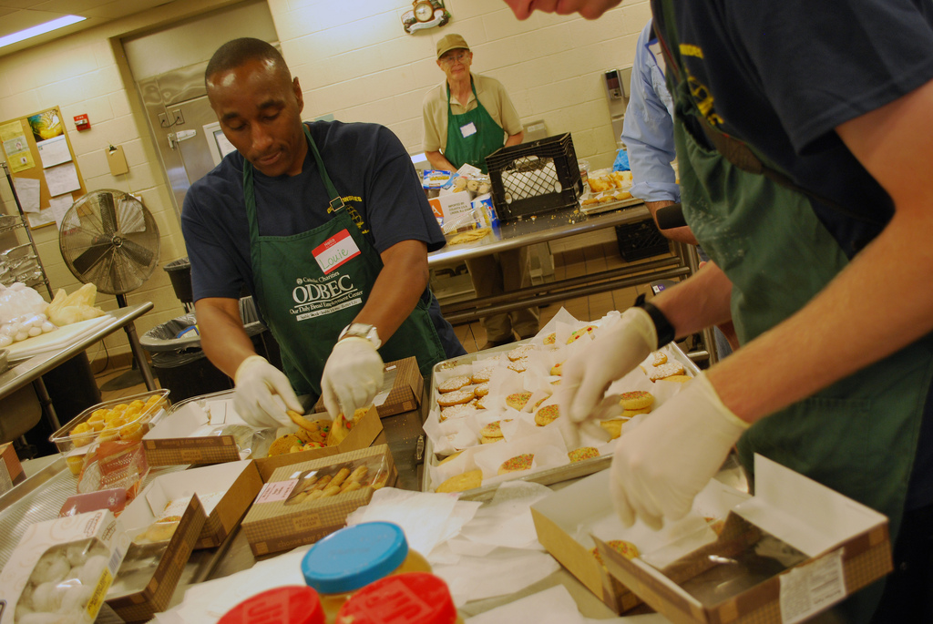 BALTIMORE (June 15, 2012) Navy Counselor 1st Class Louie Beasley and other Sailors assigned to USS Constitution prepare lunch for guests of Our Daily Bread Employment Center, a charitable feeding facility of Catholic Charities, during Baltimore Navy Week 2012. (U.S. Navy photo by Senior Chief Communications Specialist Susan Hammond/Released) 120615-N-CI293-036 Join the conversation navylive.dodlive.mil